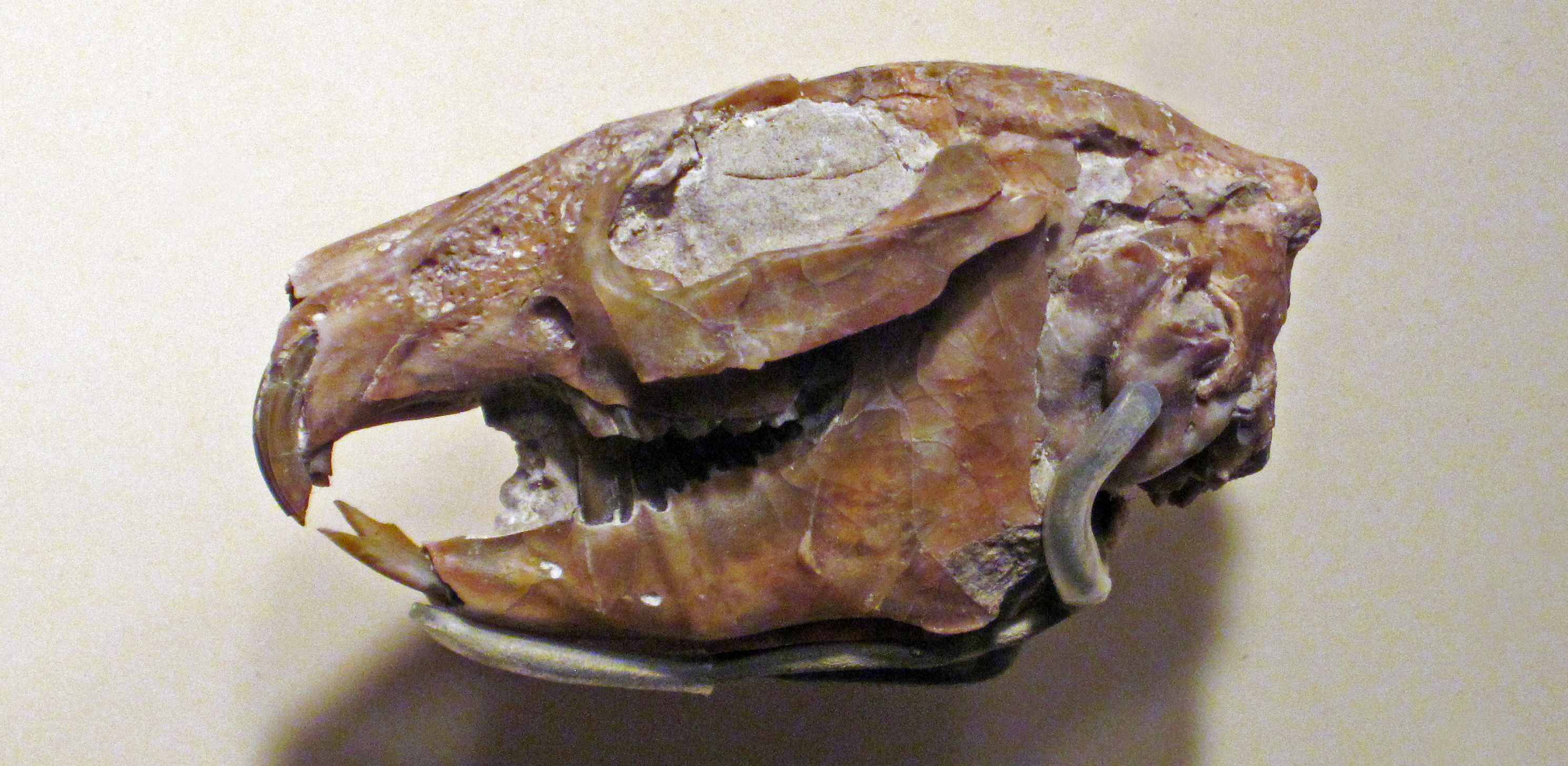 Palaeolagus haydeni Leidy, 1856 - fossil rabbit skull from the Oligocene of Nebraska, USA. (public display, Field Museum of Natural History, Chicago, Illinois, USA) From museum signage: "This rabbit had long hind legs, good for escaping predators across open grasslands. Rabbits' long ears allow them to hear faraway sounds and detect predators from a distance, another good adaptation for open grassland living." Classification: Animalia, Chordata, Vertebrata, Mammalia, Lagomorpha, Leporidae See info. at